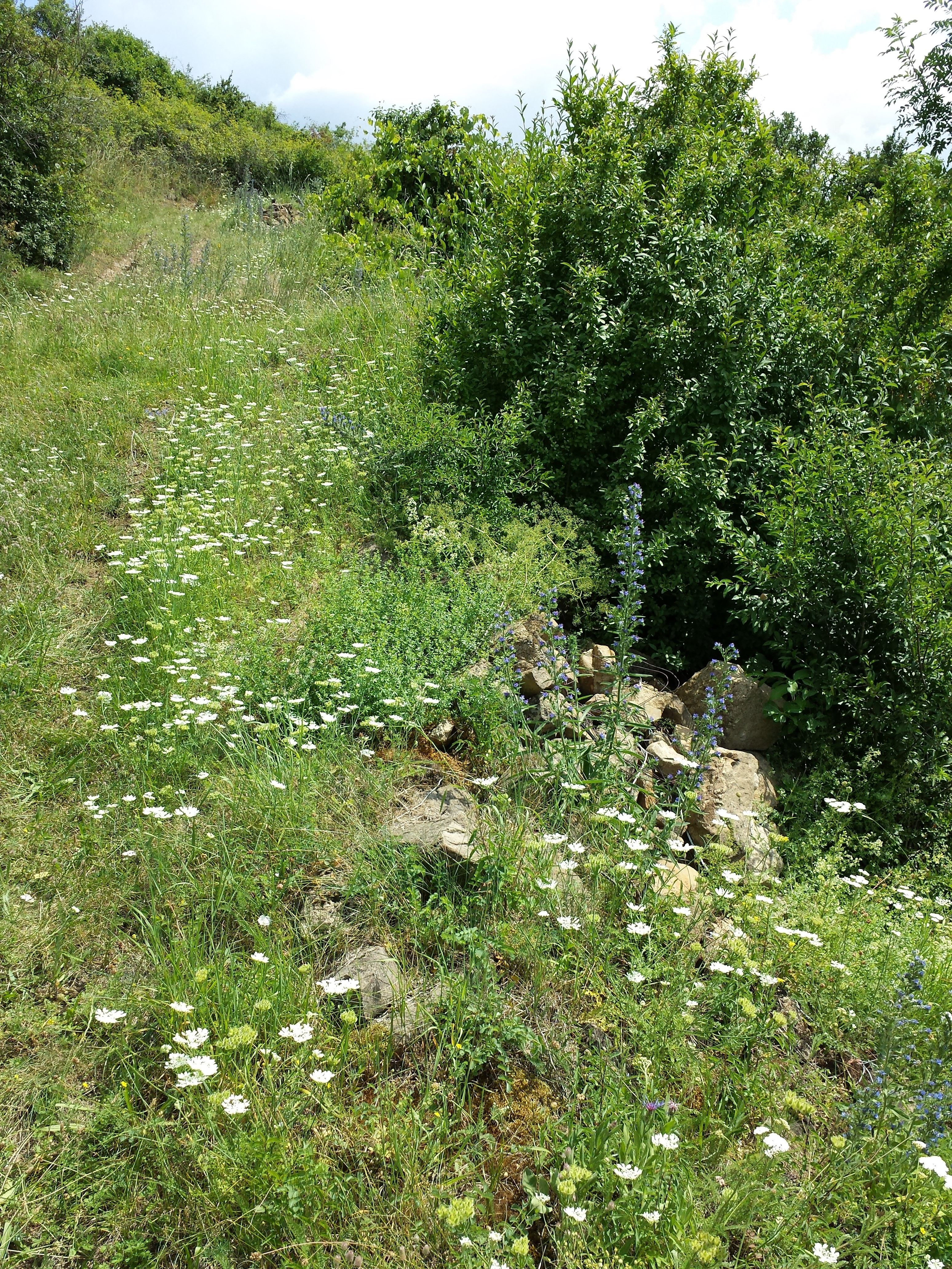 Habitat Taxon: Orlaya grandiflora (sensu Fischer et al. EfÖLS 2008 ISBN 978-3-85474-187-9) Location: Heiligenstein near Zöbing, district Krems, Lower Austria - ca. 260 m a.s.l. Habitat: rocky dry grassland / border of a vineyard